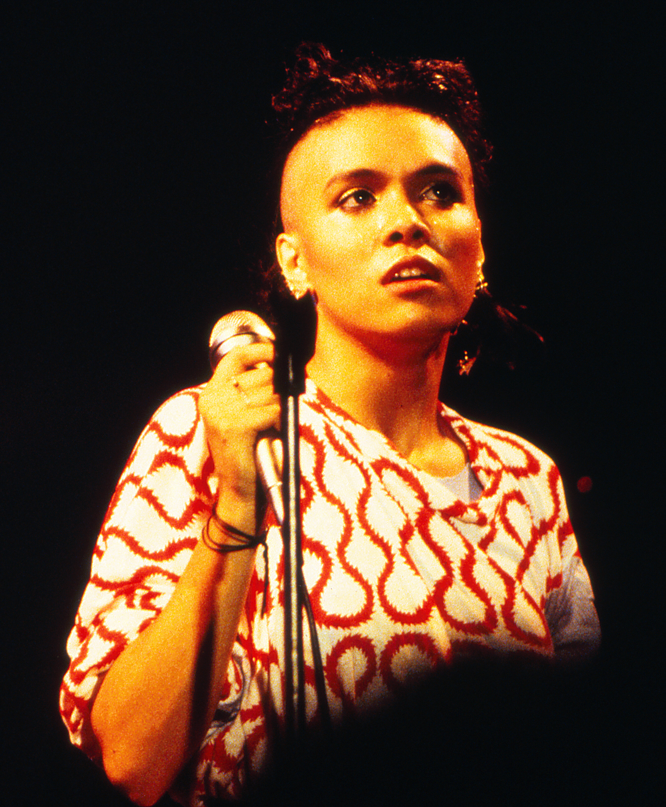 Annabella Lwin with Bow Wow Wow 1982 at Kant-Kino, Berlin